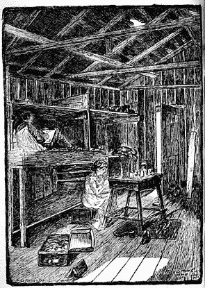 Image from Silverado Squatters by Robert Louis Stevenson Published 1883, Chattus and Windus, London.